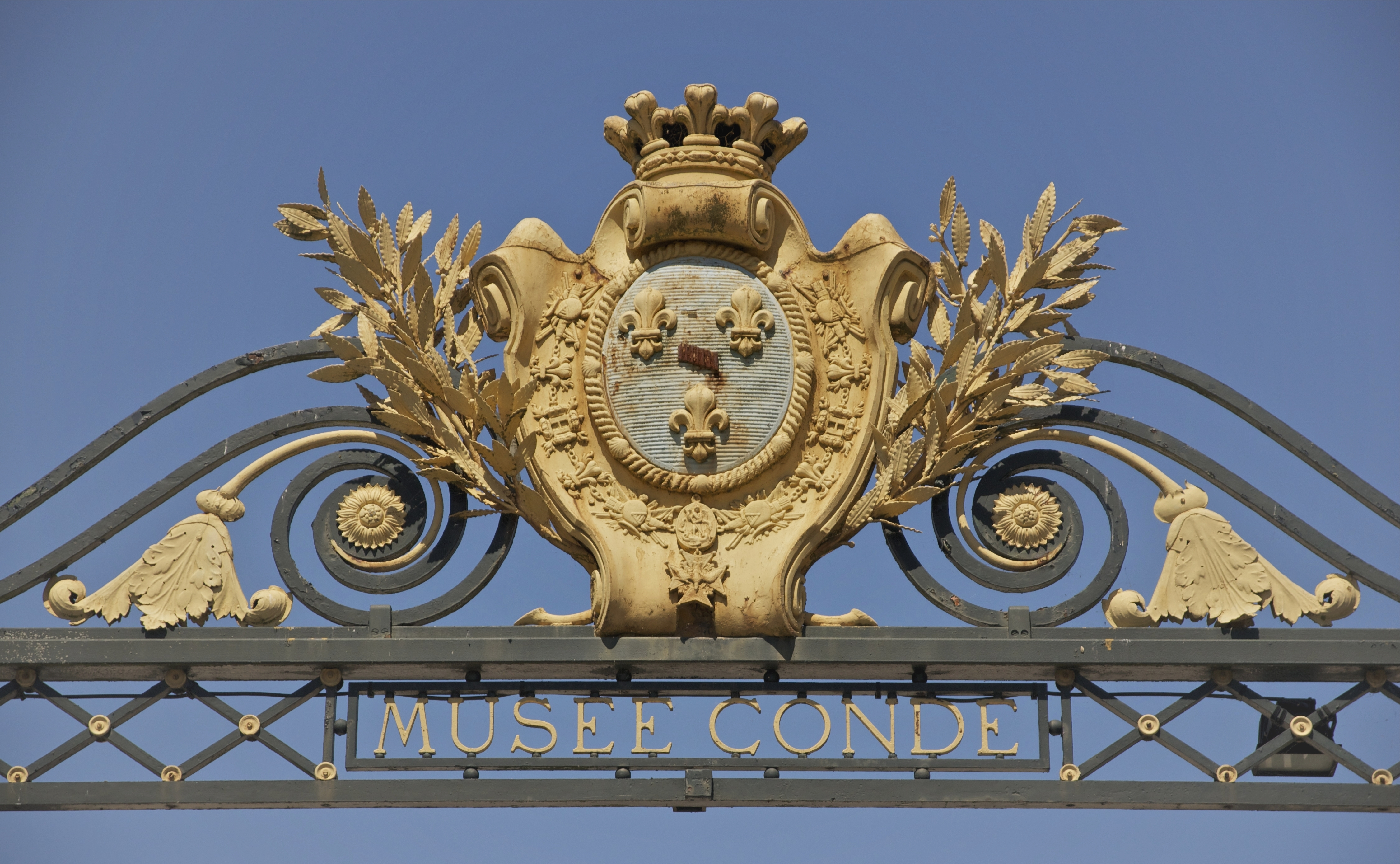 The CoA of the House of Bourbon-Condé, above the main entry of the Château de Chantilly, France.